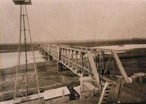 Railway bridge over Neuquén River, in Neuquén Province, Argentina. This bridge was built by the Buenos Aires Great Southern Railway.